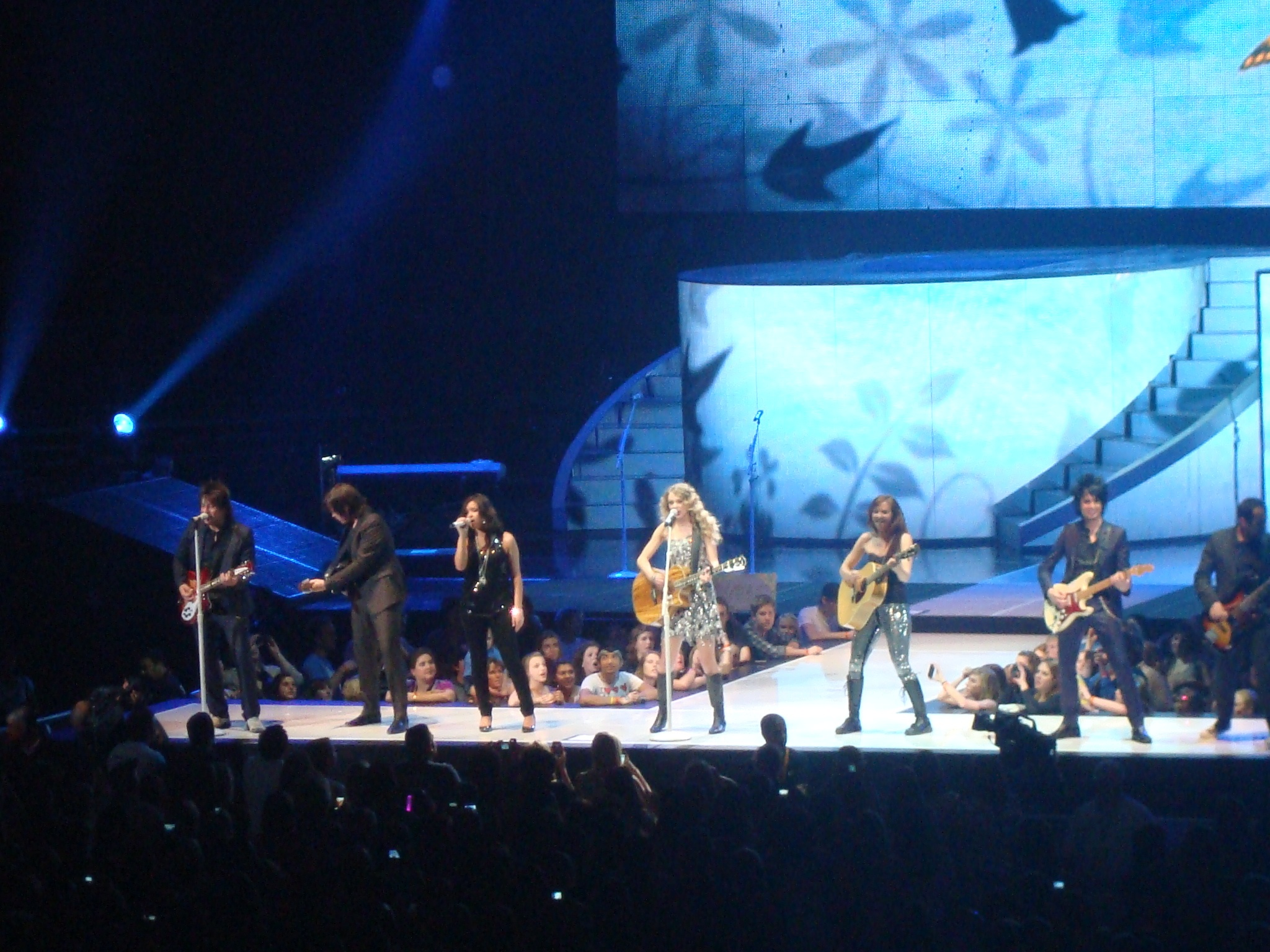 Country pop singer Taylor Swift singing on her Fearless Tour in Austin, Texas.